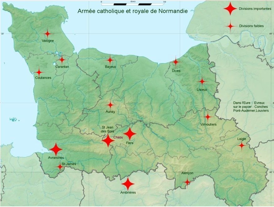 Chouannerie normande, organisation